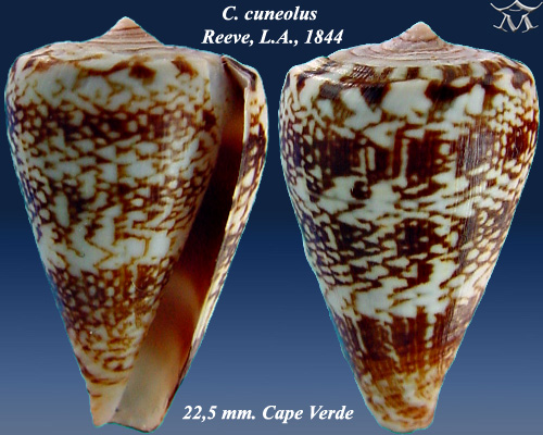 Conus cuneolus 3